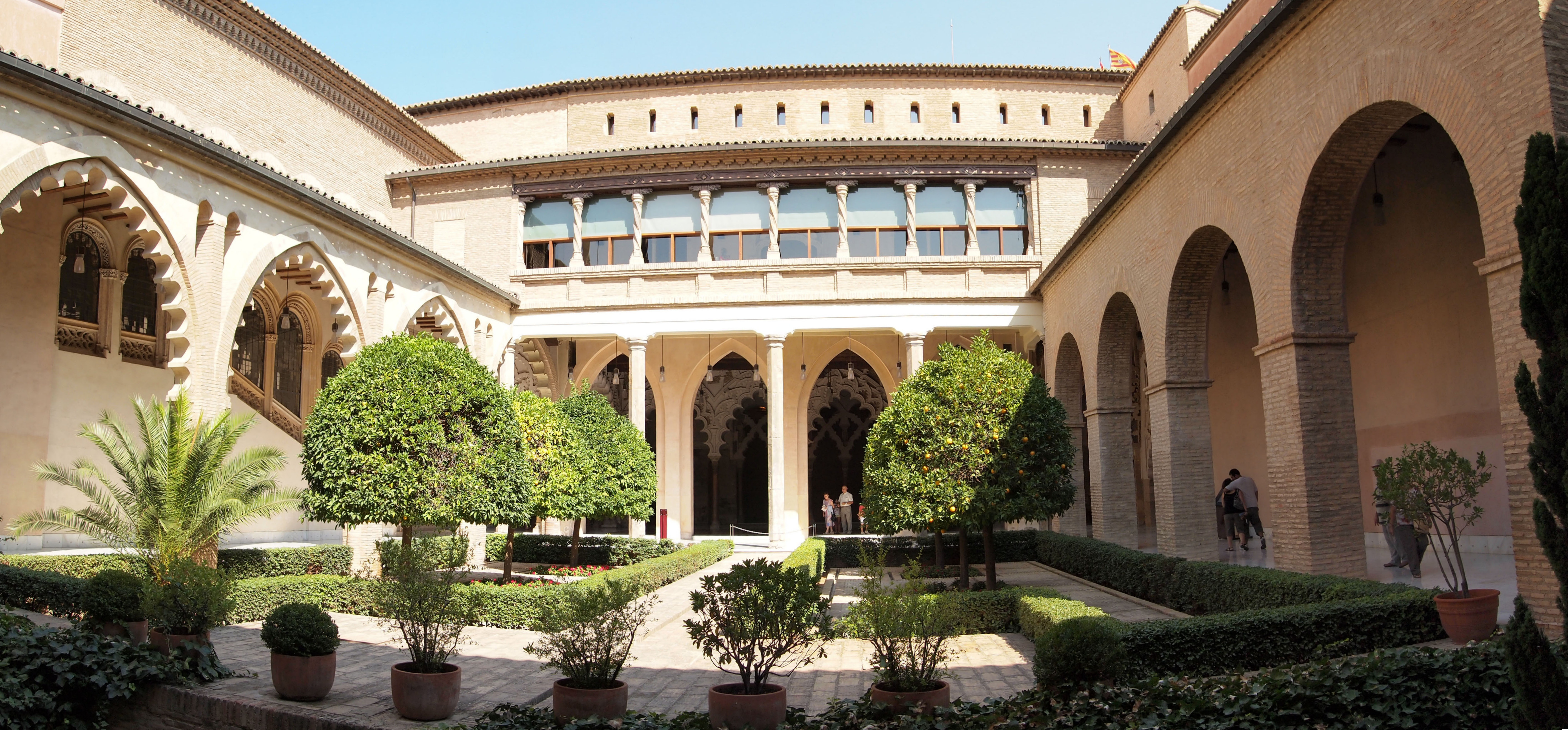 Inner court of La Aljaferia in Zaragoza. This photograph was taken with an Olympus E-PL1